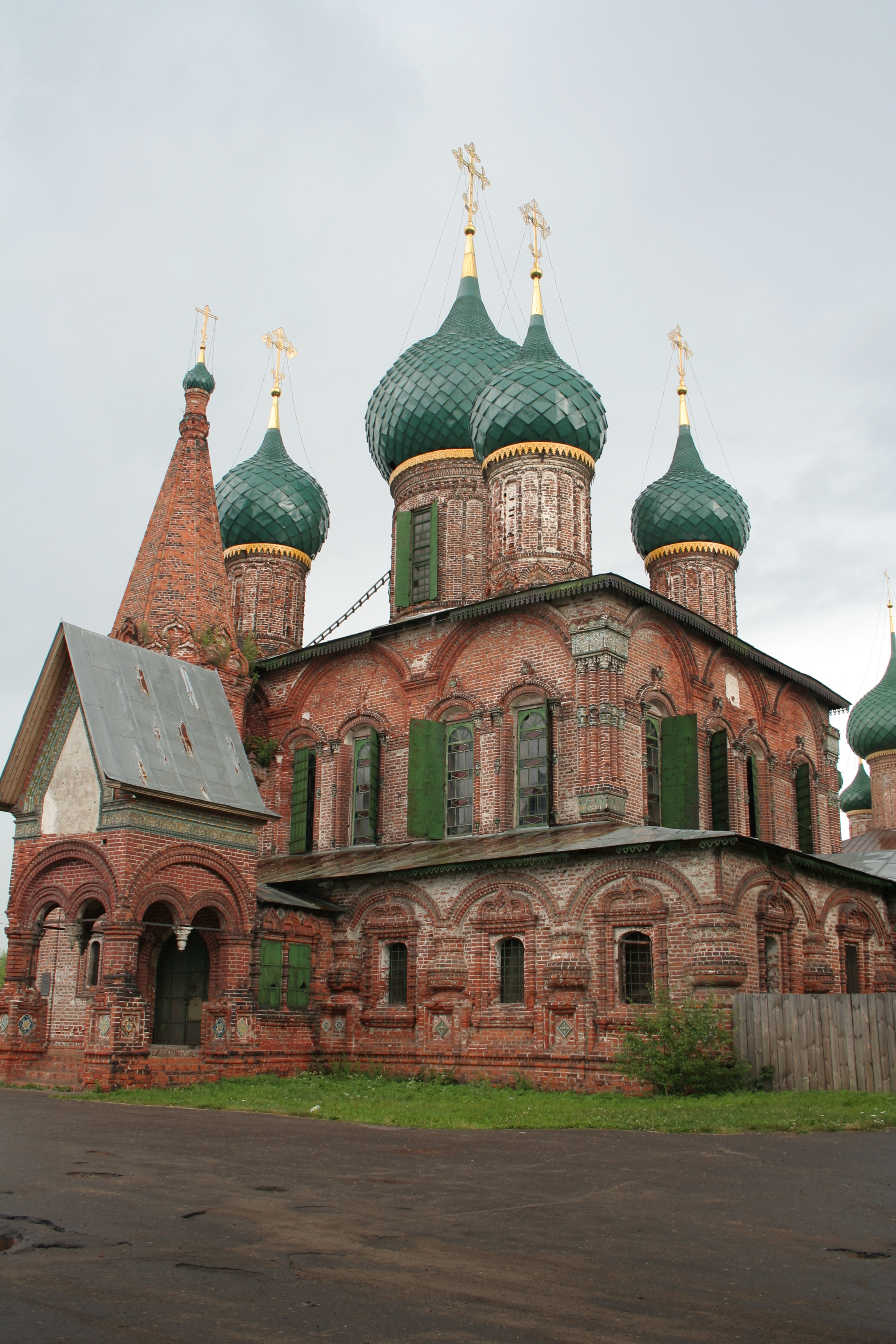 Church of John Chrysostom in Yaroslavl, Russia